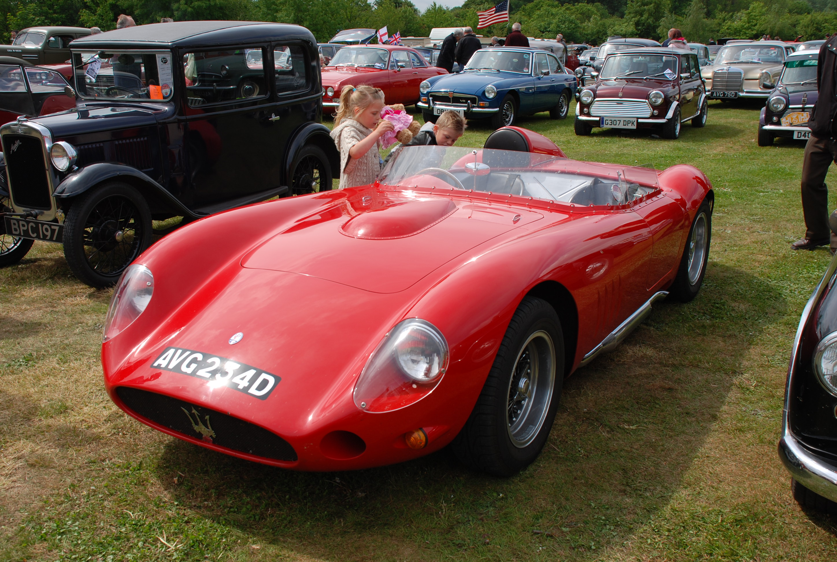 A 2006 replica made to look like a 1957 Maserati 450 S. Alloy bodied, V8 from 1966 Maserati QP, UK license "AVG 234D". Here on display at "The Goat", Skeyton, Norfolk May 2011